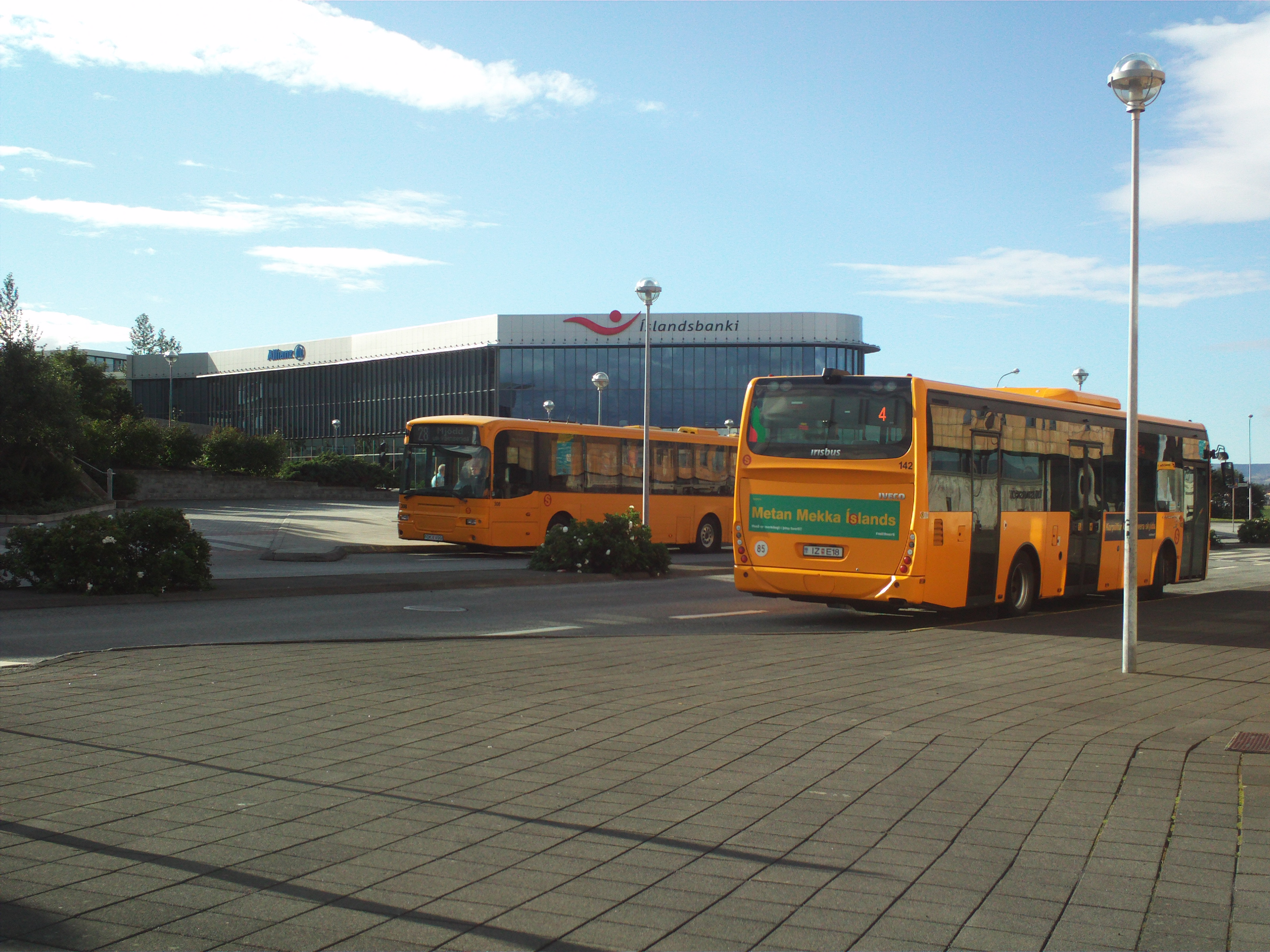 Public Reykjavik area (Stræto) buses in Kopavogur